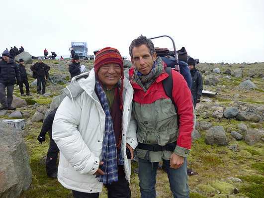 On the set of film "Secret Life of Walter Mitty" in Iceland, getting ready for the climb